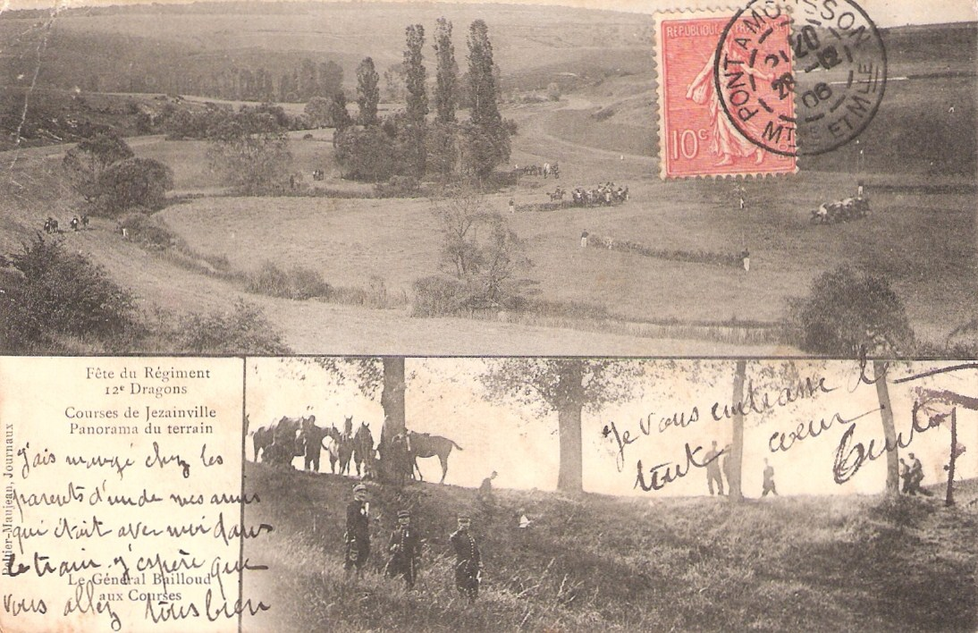 Old post card of Jezainville (Meurthe-et-Moselle ; France). The valley of Esch and horse-race of 12th Dragons of Pont-A-Mousson.